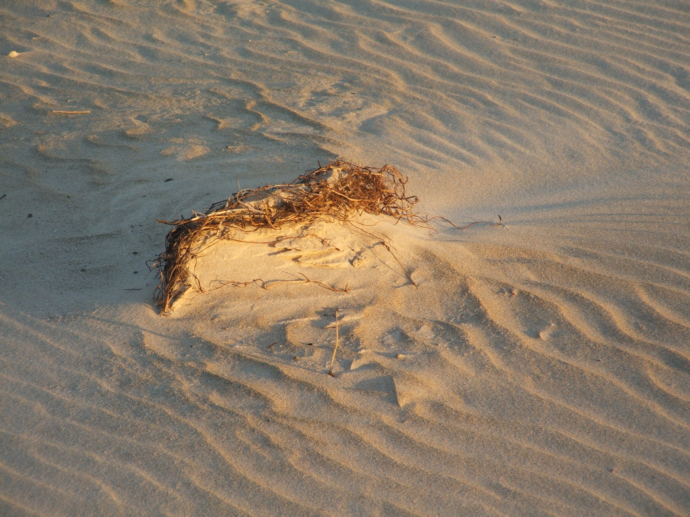 Small sand dune on the beach